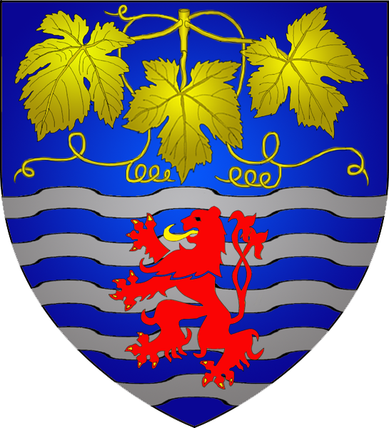 Coat of arms of the municipality of Wellenstein, Luxembourg (valid until 1 January 2012)